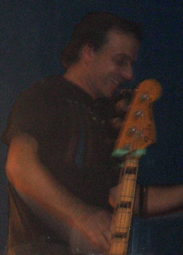 Alvaro Pintos, drummer of El Cuarteto de Nos, during a concert in Buenos Aires City, Argentina.